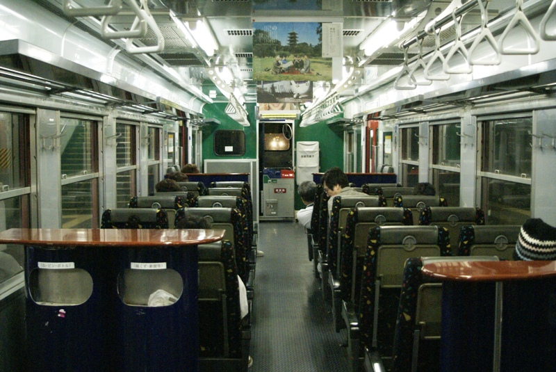 The interior of JR Kyushu 713 series EMU set LK-904